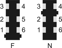 TAE plug from de wikipedia - by de user dotob.